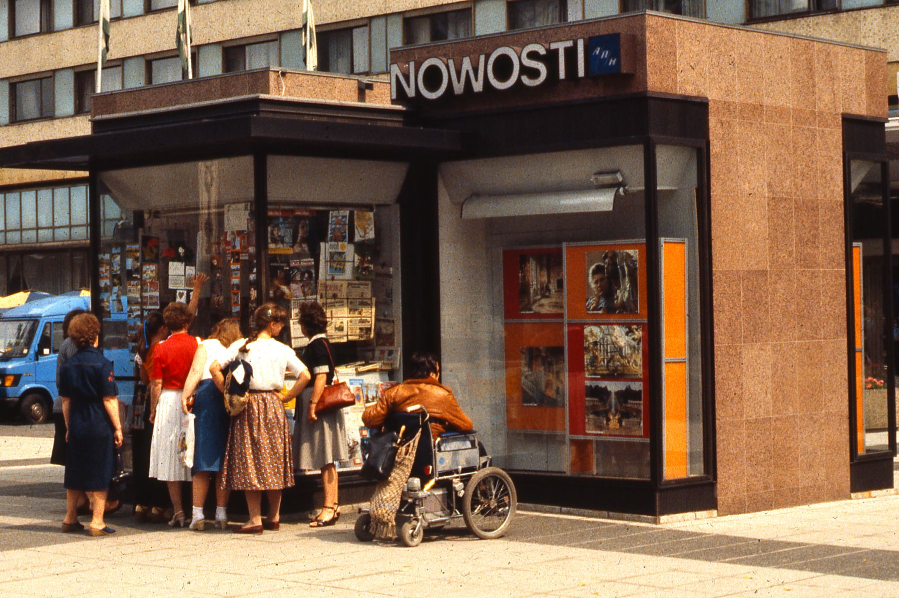 Newspaper stall and women in East Berlin, with person in wheelchair, featuring large Novosti sign, 1984 Other information Photo by George Garrigues